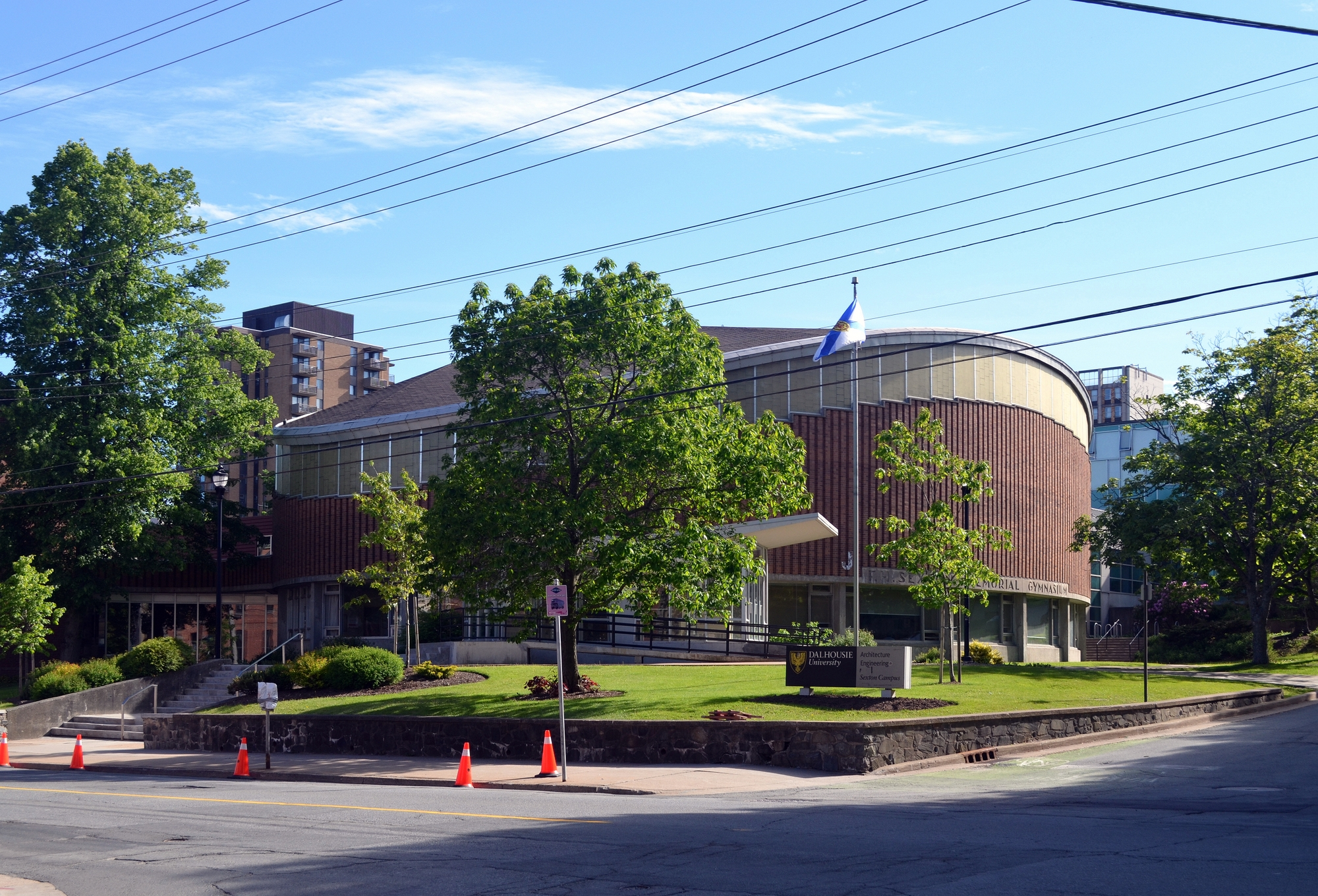 Sexton Gymnasium, Dalhousie University